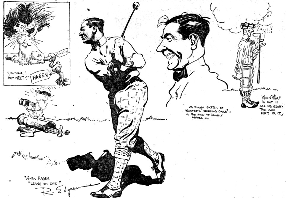 Professional golfer Walter Hagen